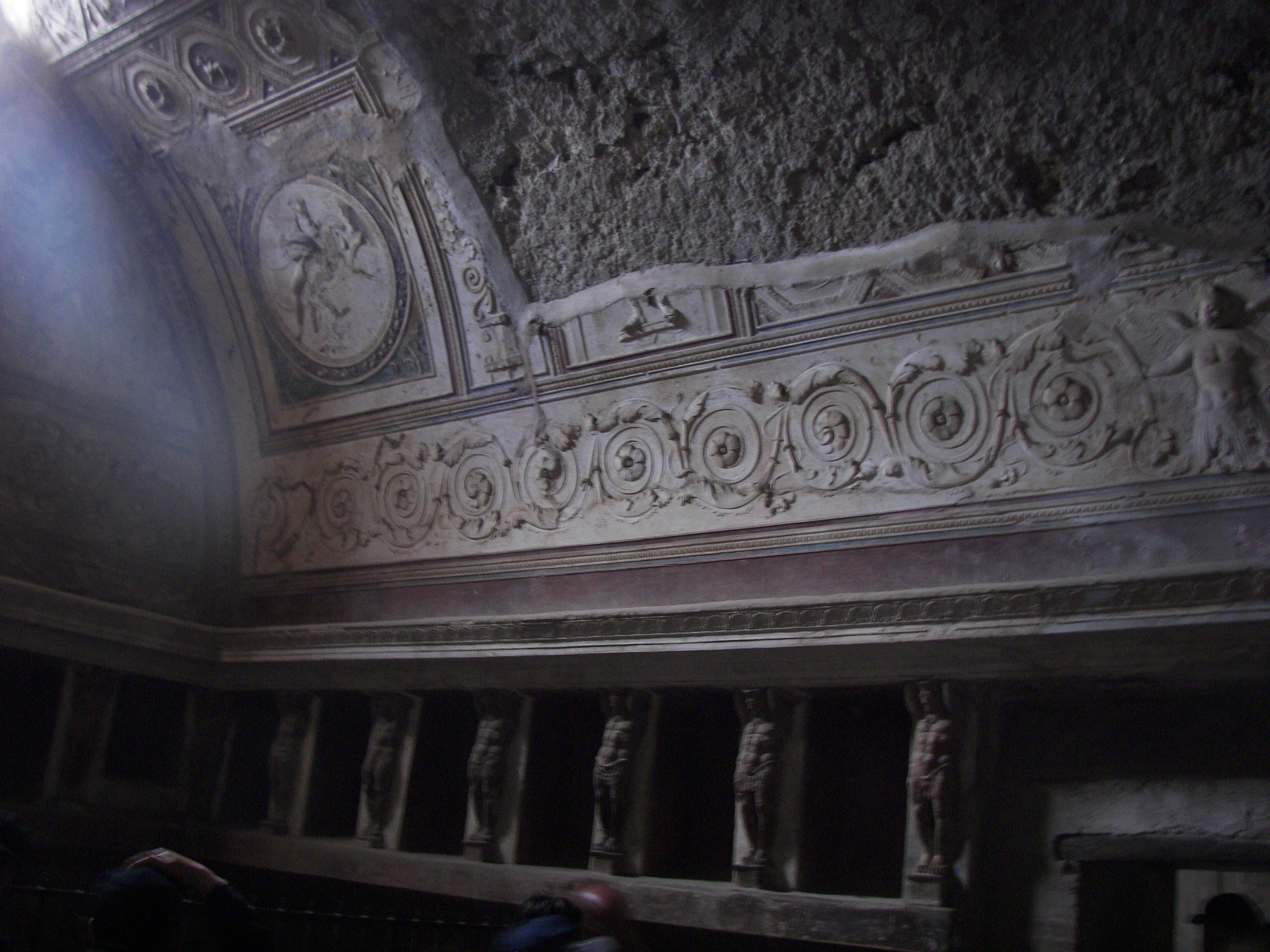 Tepidarium in the main forum baths of Pompeii.